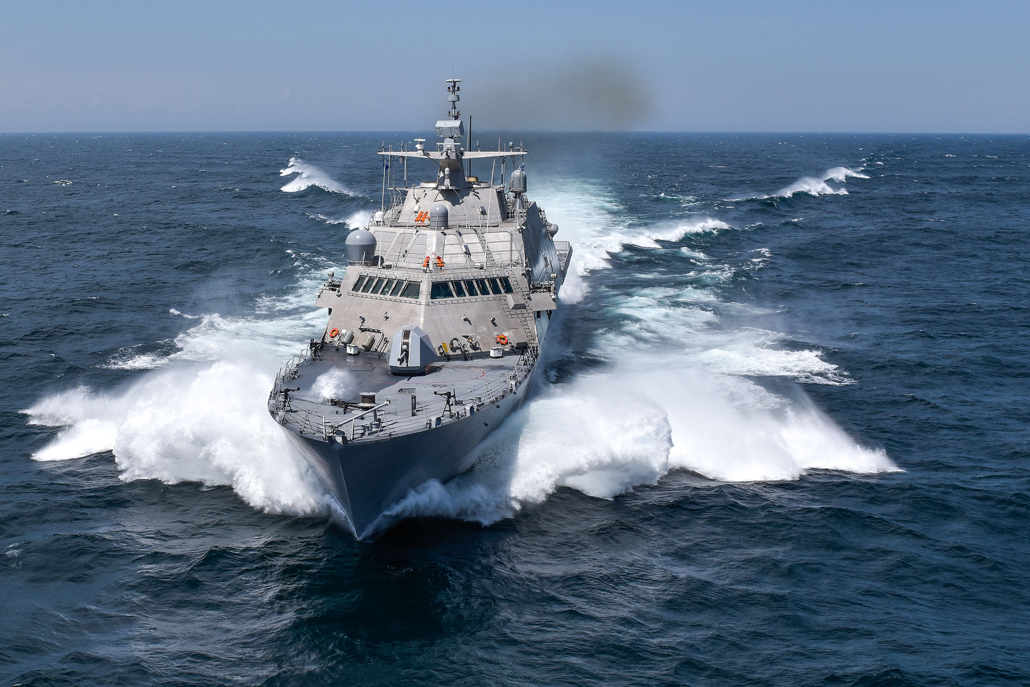 MARINETTE, Wisconsin (July 14, 2016) The future USS Detroit (LCS 7) conducts acceptance trials. Acceptance trials are the last significant milestone before delivery of the ship to the Navy. (U.S. Navy Photo courtesy of Lockheed Martin-Michael Rote/Released)